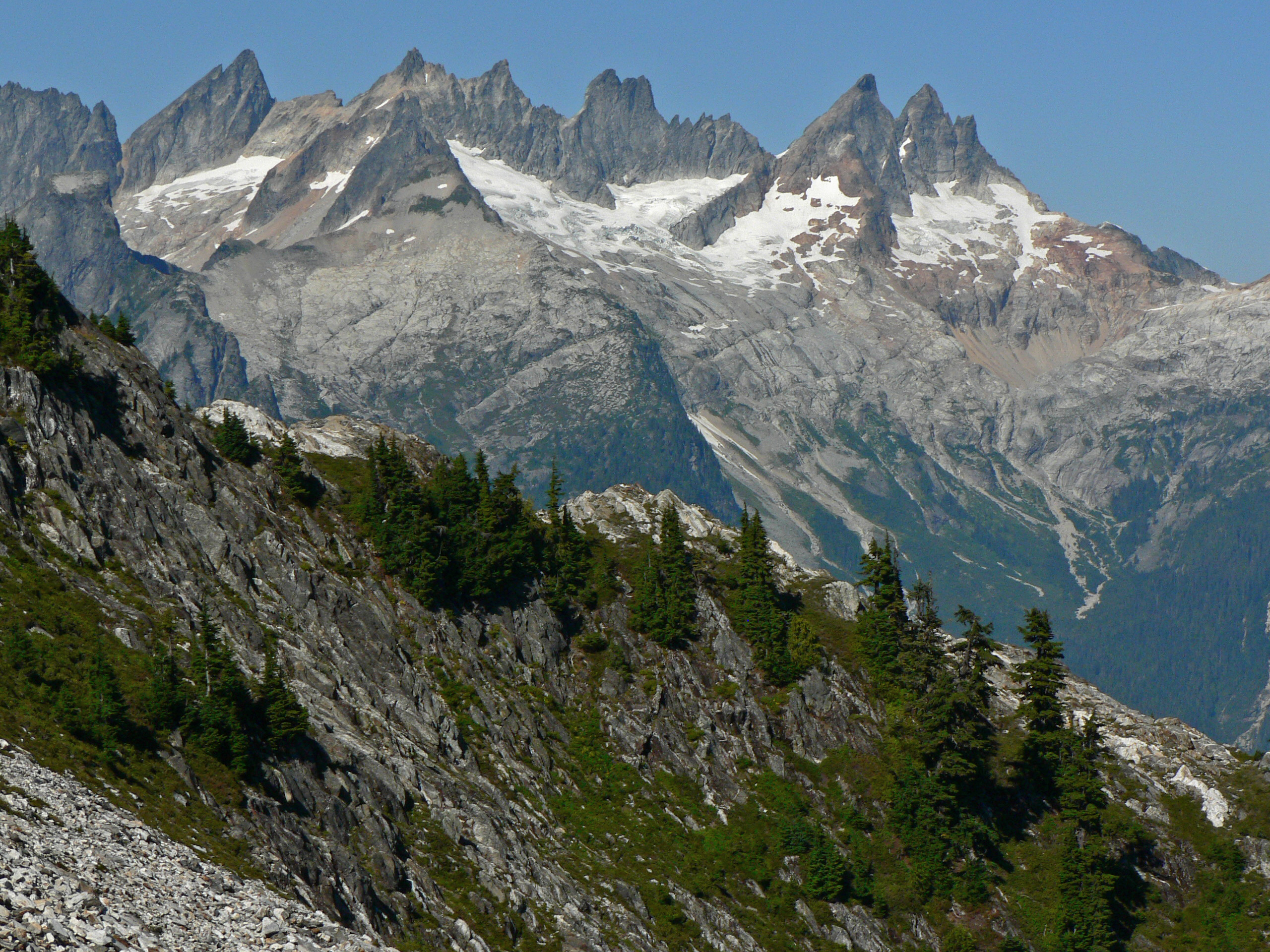 Mount Terror (left skyline), Mount Degenhardt (left center skyline) with Pinnacle Peak in front, The Pyramid, Inspiration Peak (center), McMillan Spires (right center); Subalpine Fir and Mountain Hemlock (foreground)